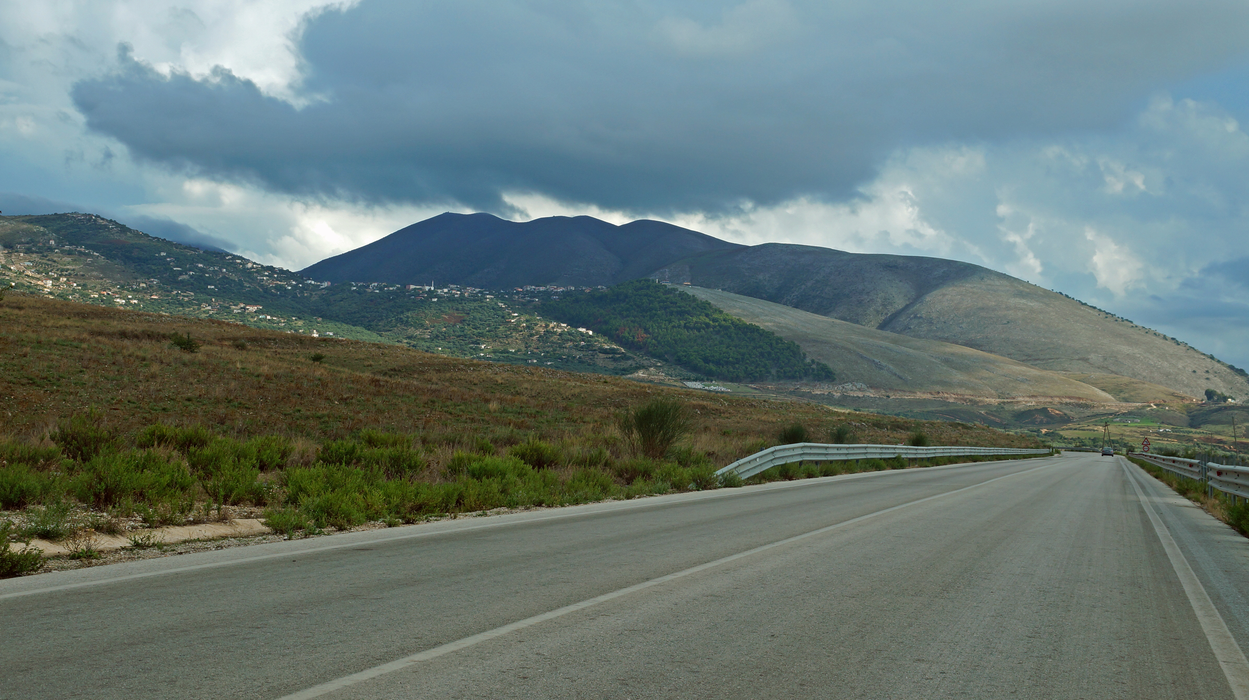 Town of Konispol in Southern Albania